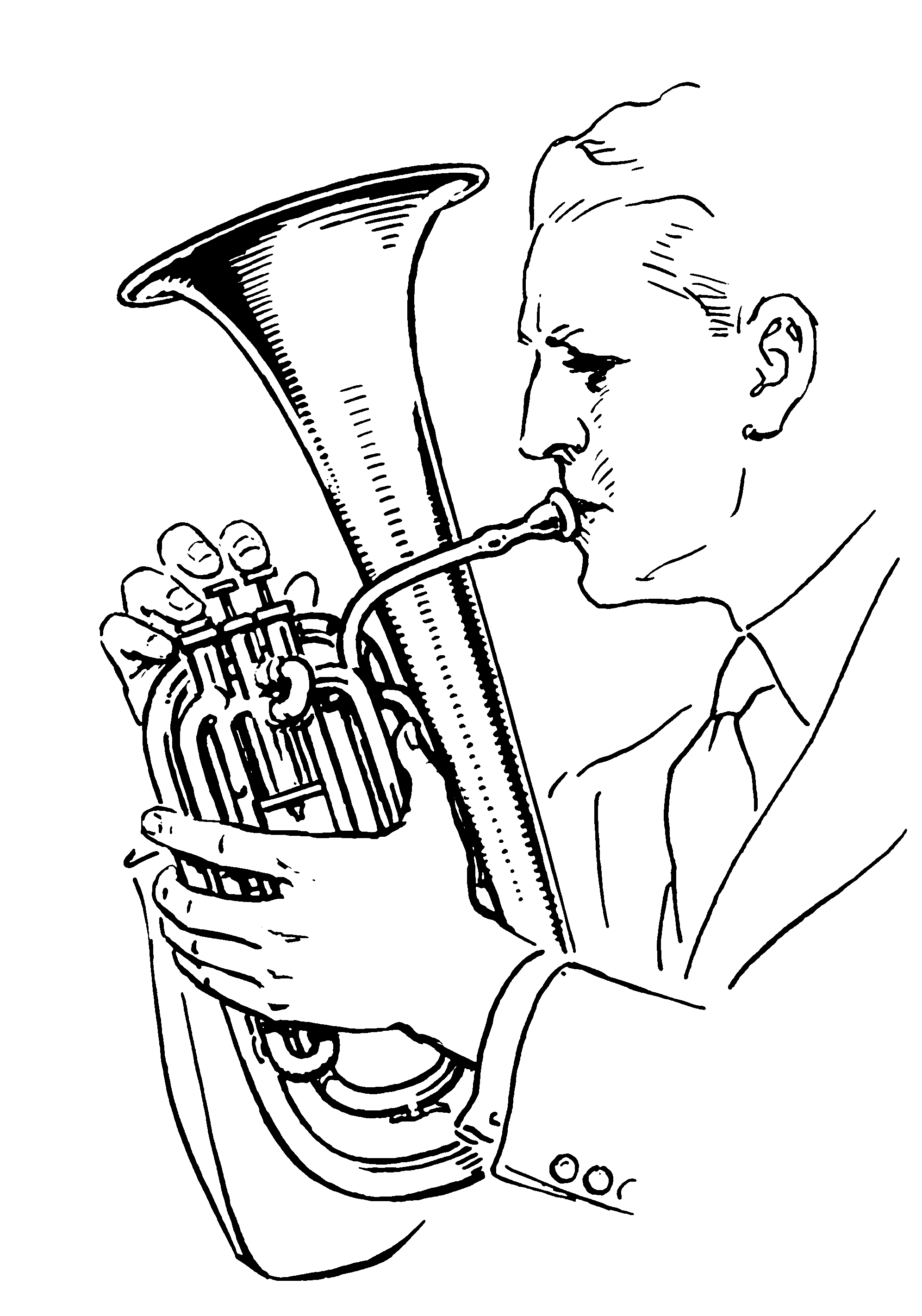 Line art drawing of an althorn.